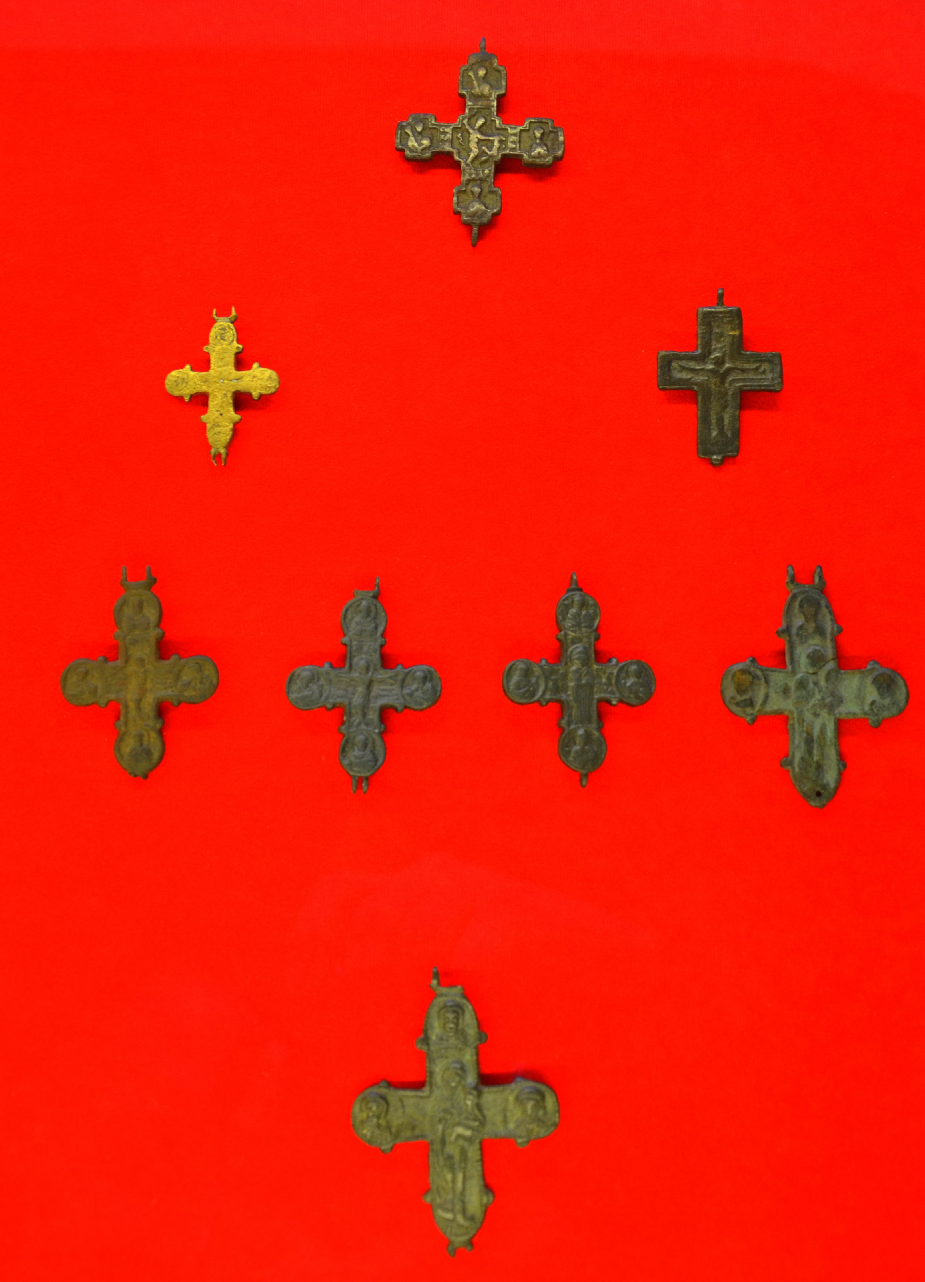 Engolpions from Sanok Trepcza